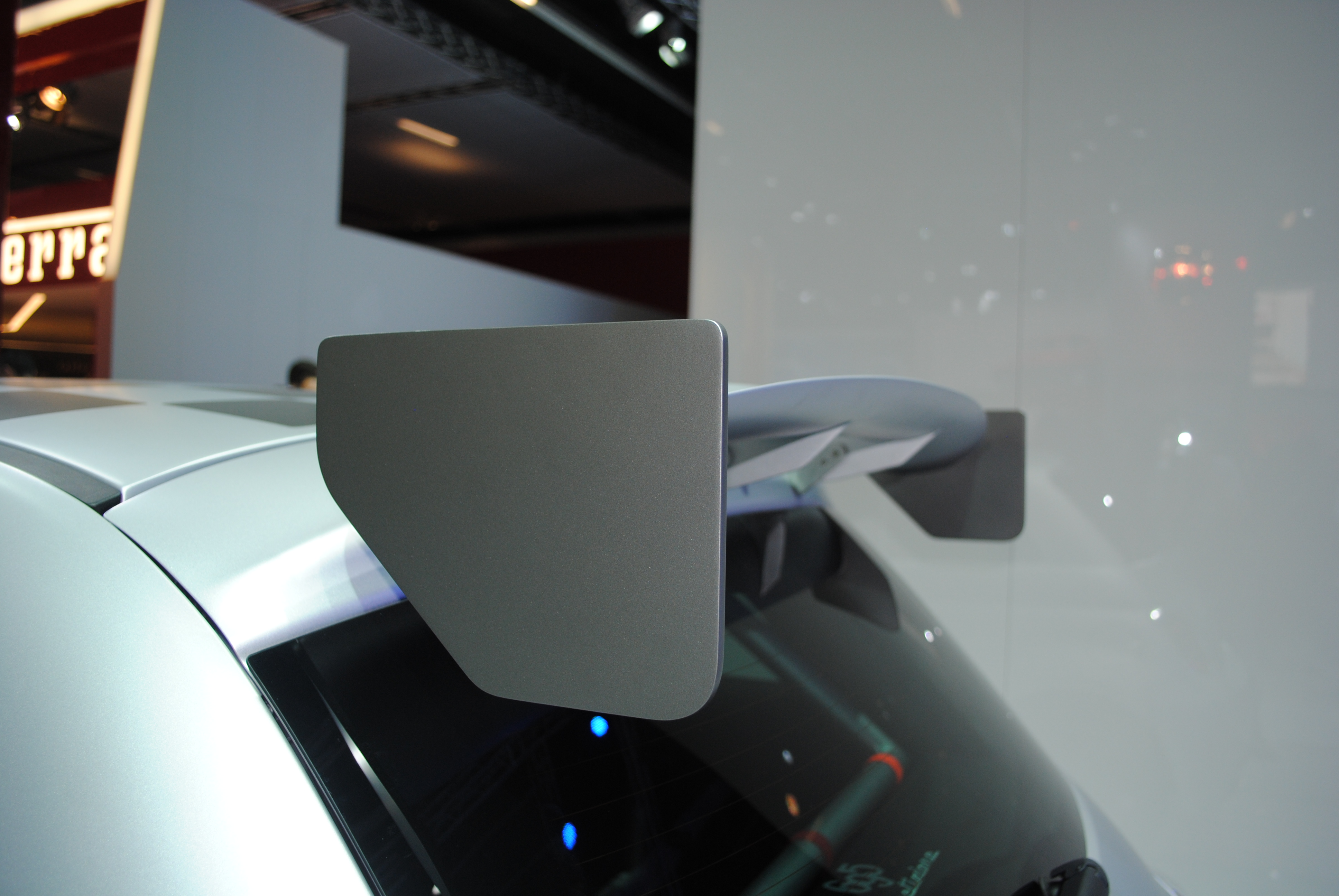 Abarth 695 Competizione! This photograph was taken with a Nikon D300. More photos and info